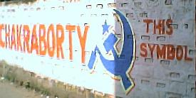 Communist Party of India (Marxist) graffiti urging voters to vote for Sujan Chakraborty in Jadavpur constituency, south Kolkata, in 2004.